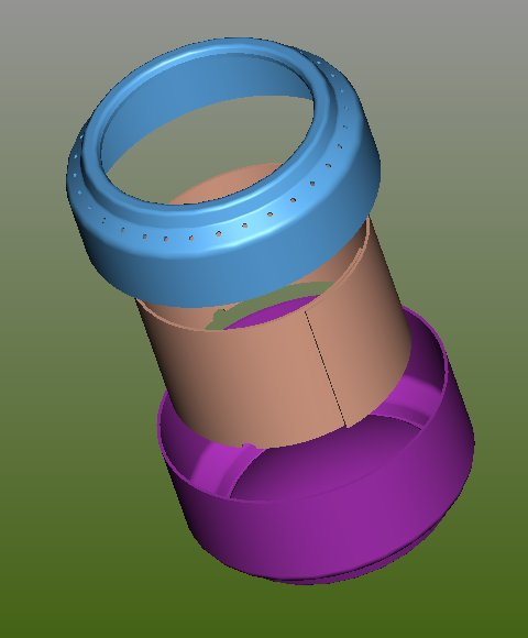 Pepsi can stove, exploded view source: me Duk 05:25, 20 Oct 2004 (UTC)